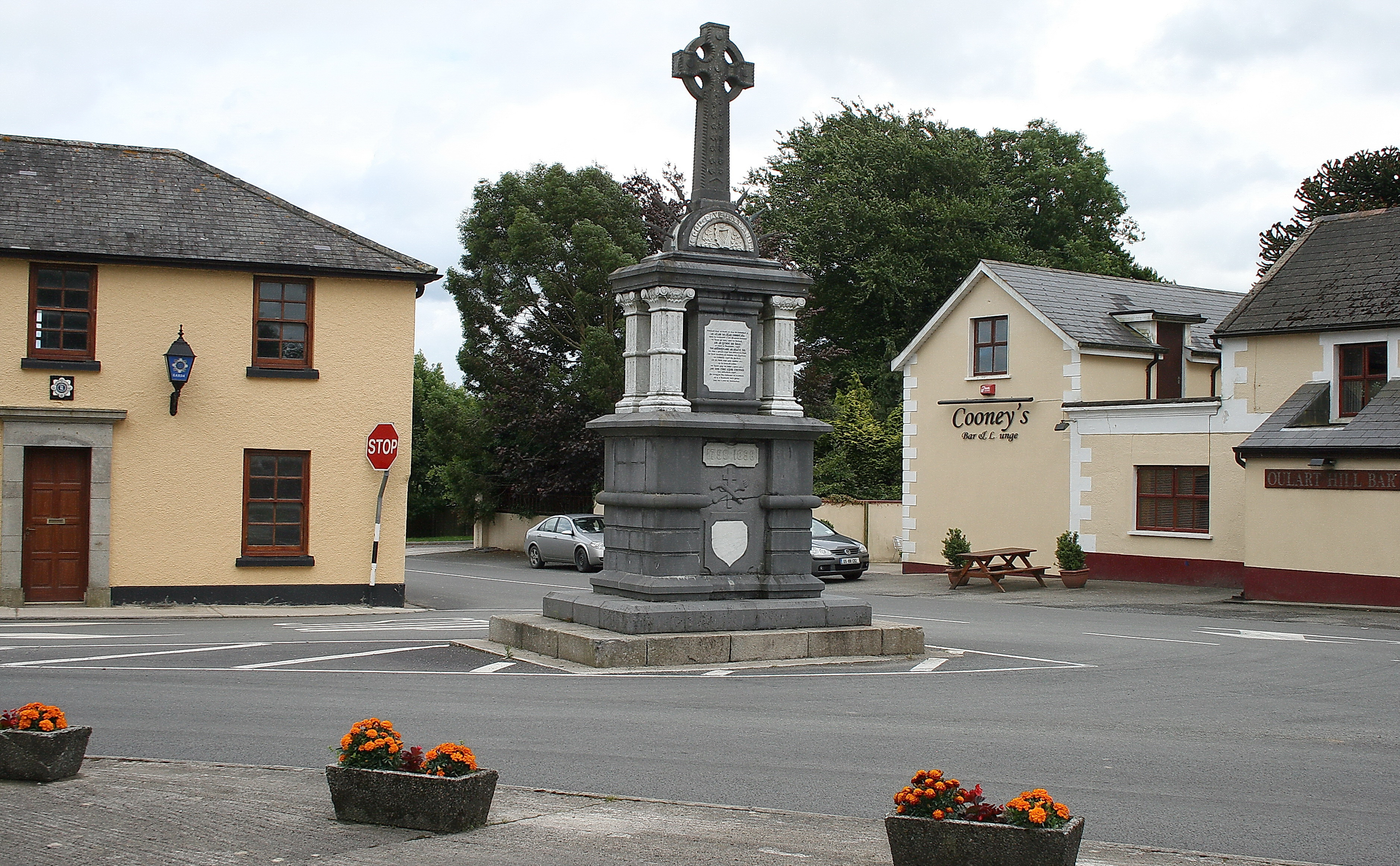 Oulart, County Wexford, near to An Tabhallort, Raheenduff Cross Roads and Ballytarsna Cross Roads, Wexford, Ireland. Village centre and 1798 memorial.